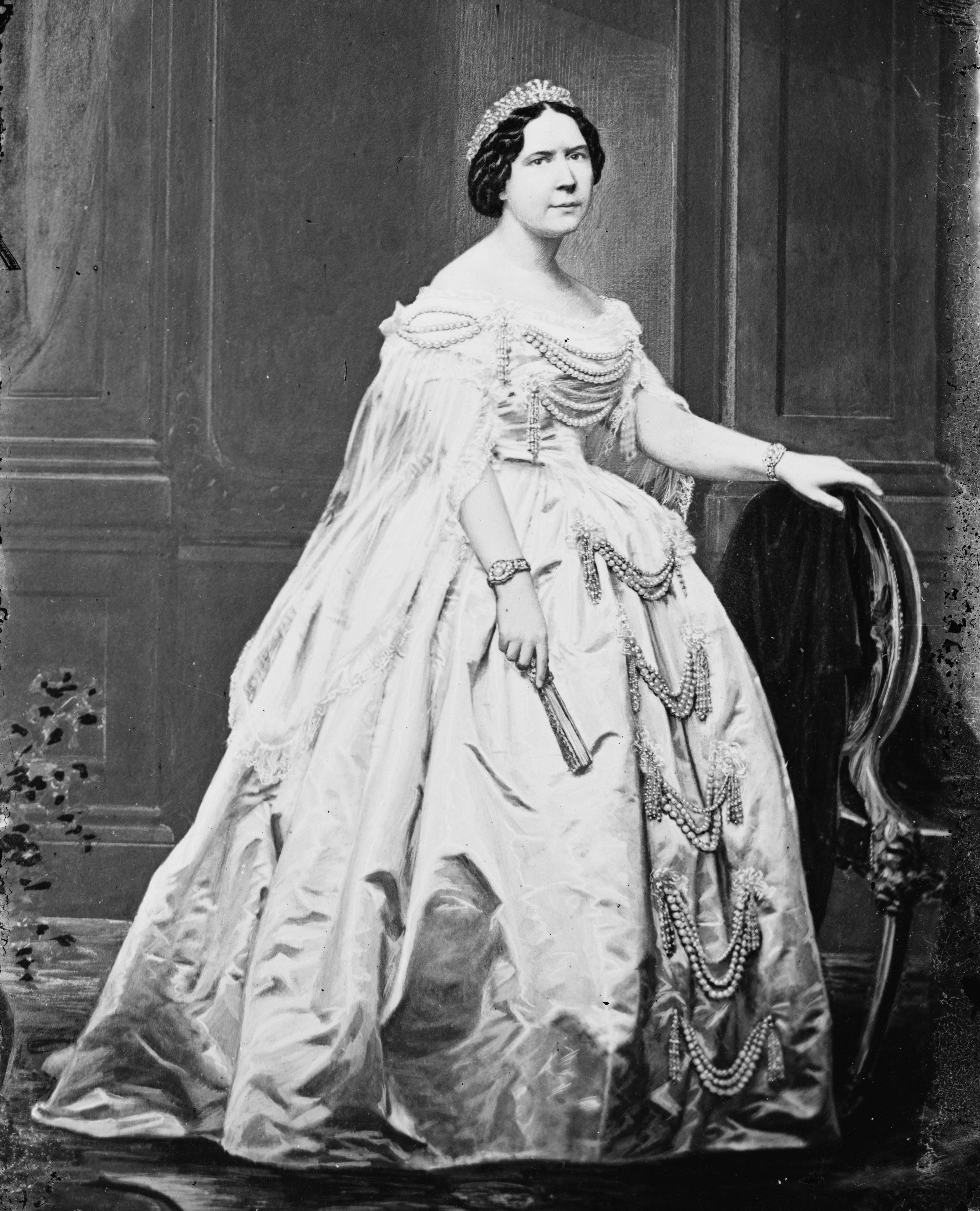 Mathilde Deslonde Slidell, wife of John Slidell. Library of Congress description: "Mrs. John Slidell".